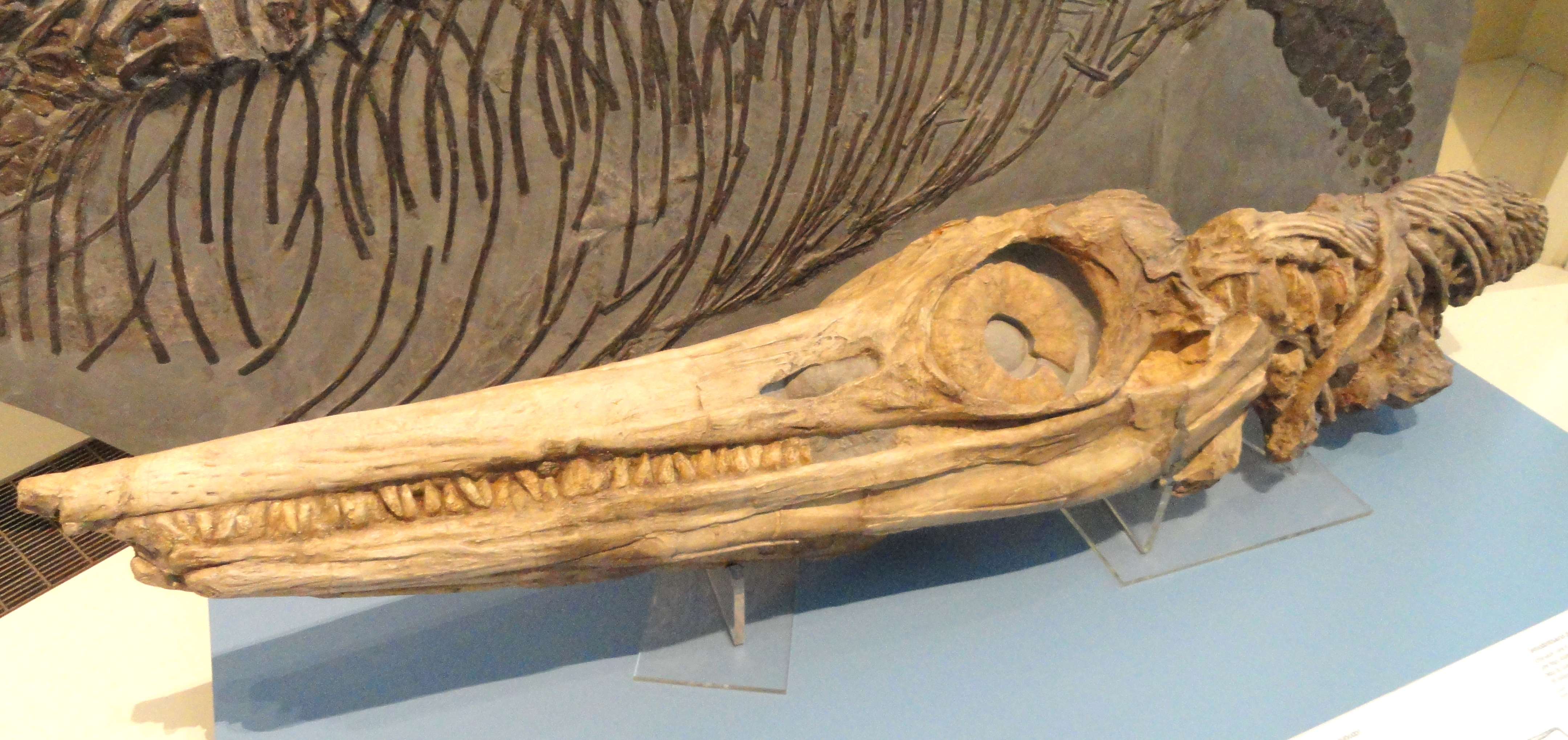 Exhibit in the Royal Ontario Museum, Toronto, Ontario, Canada. This exhibit is old enough so that it is in the public domain, and photography was permitted in the museum. I took this photograph and release it into the public domain.